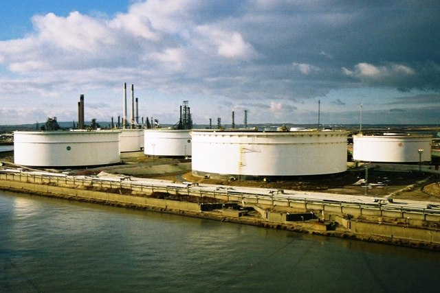 Oil tanks at Coryton refinery Oil storage tanks in the refinery. The photo was taken from the bridge of the tanker TIKHVIN, which was loading petrol from the terminal.